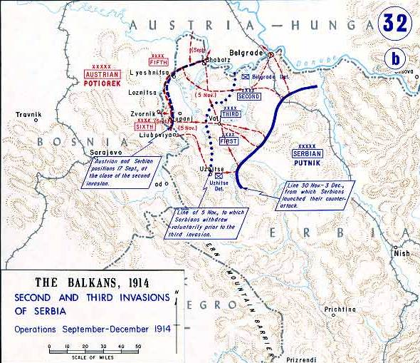 This map, showing the 2nd and 3rd attacks on Serbia in 1914 by the Austrian army, was created by the Department of Military Art and Engineering, at the U.S. Military Academy (West Point). The initial version was created under the supervision of General Vincent Esposito in 1959. It is now available on the West Point web site at: The map has been cropped to remove unneeded parts of the territory.